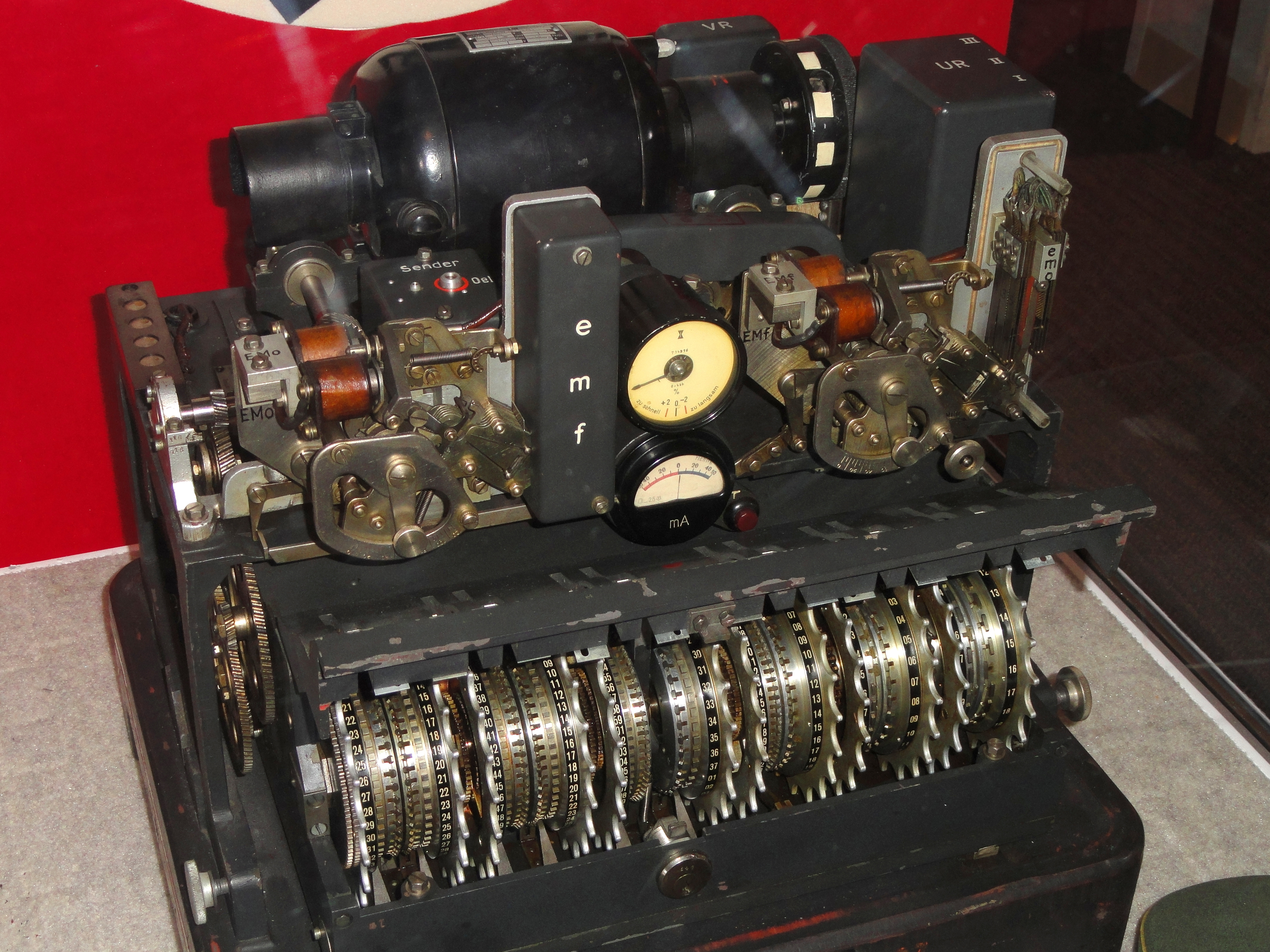 Exhibit in the National Cryptologic Museum, Fort Meade, Maryland, USA. All items in this museum are unclassified; items created by the United States Government are not subject to copyright restrictions.